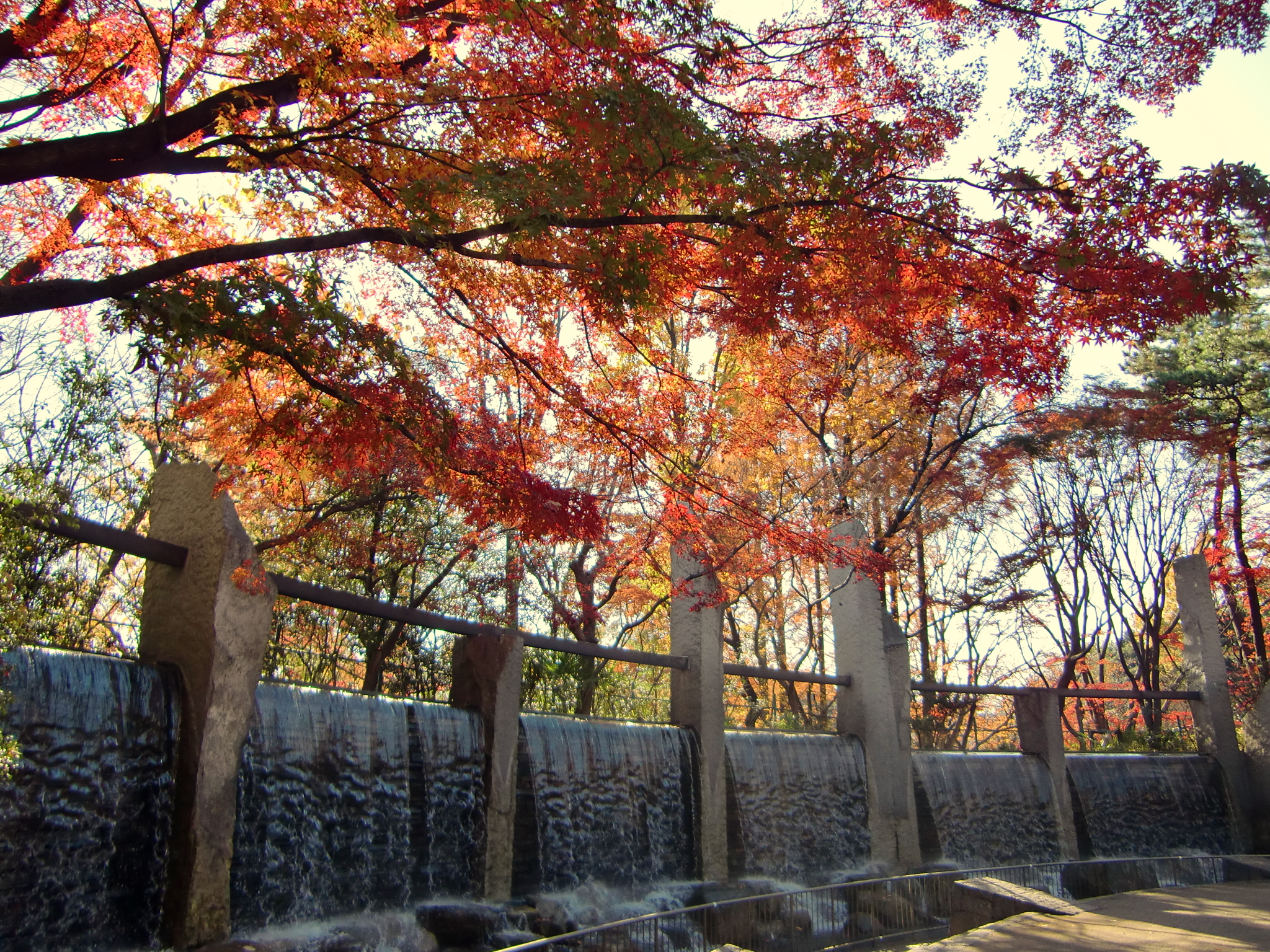 Japanese holly trees and waterfall at Sanshi no Mori Koen Park in Suginami, Tokyo Japan